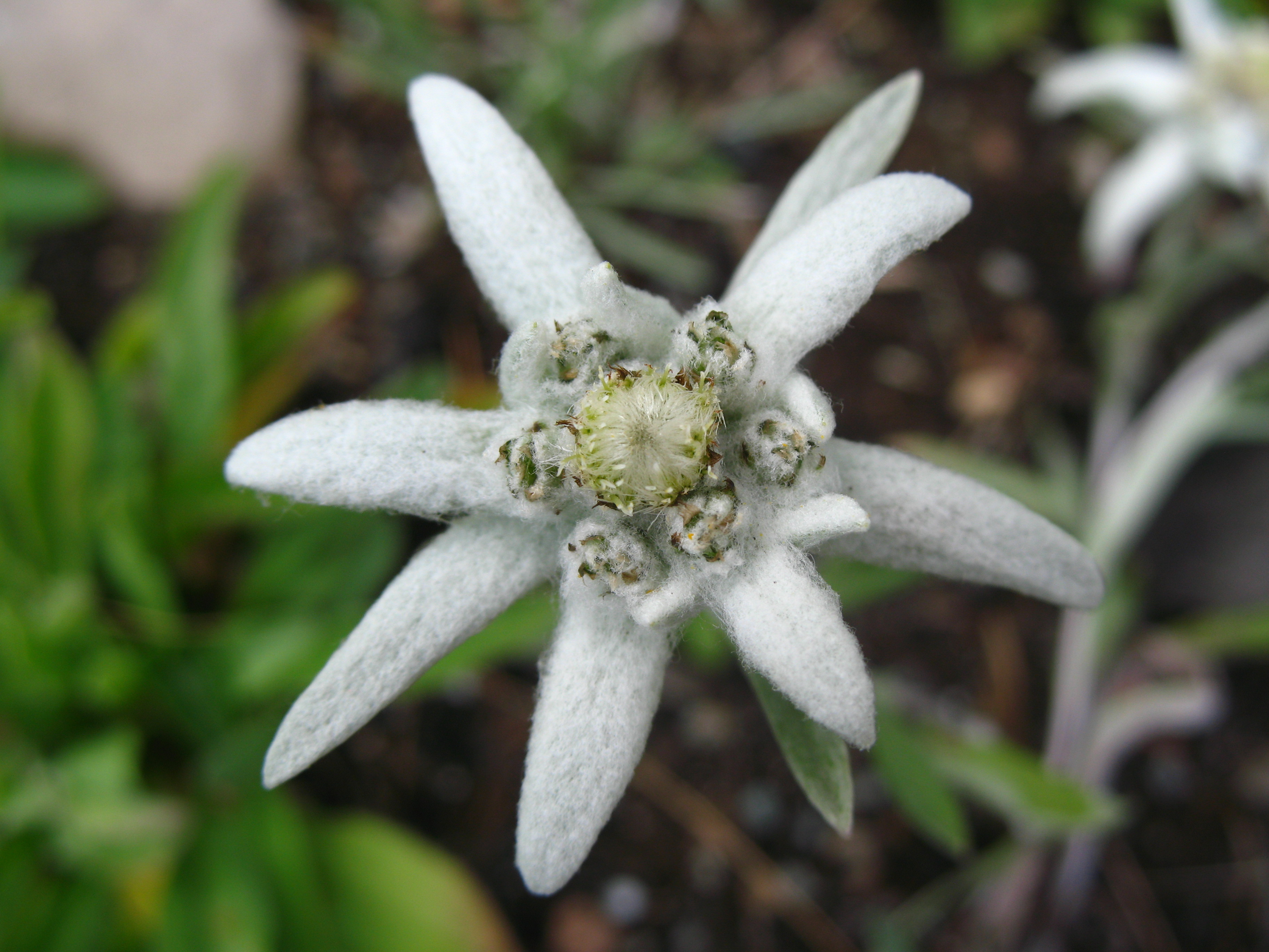 Leontopodium alpinum, Schynige Platte, Switzerland